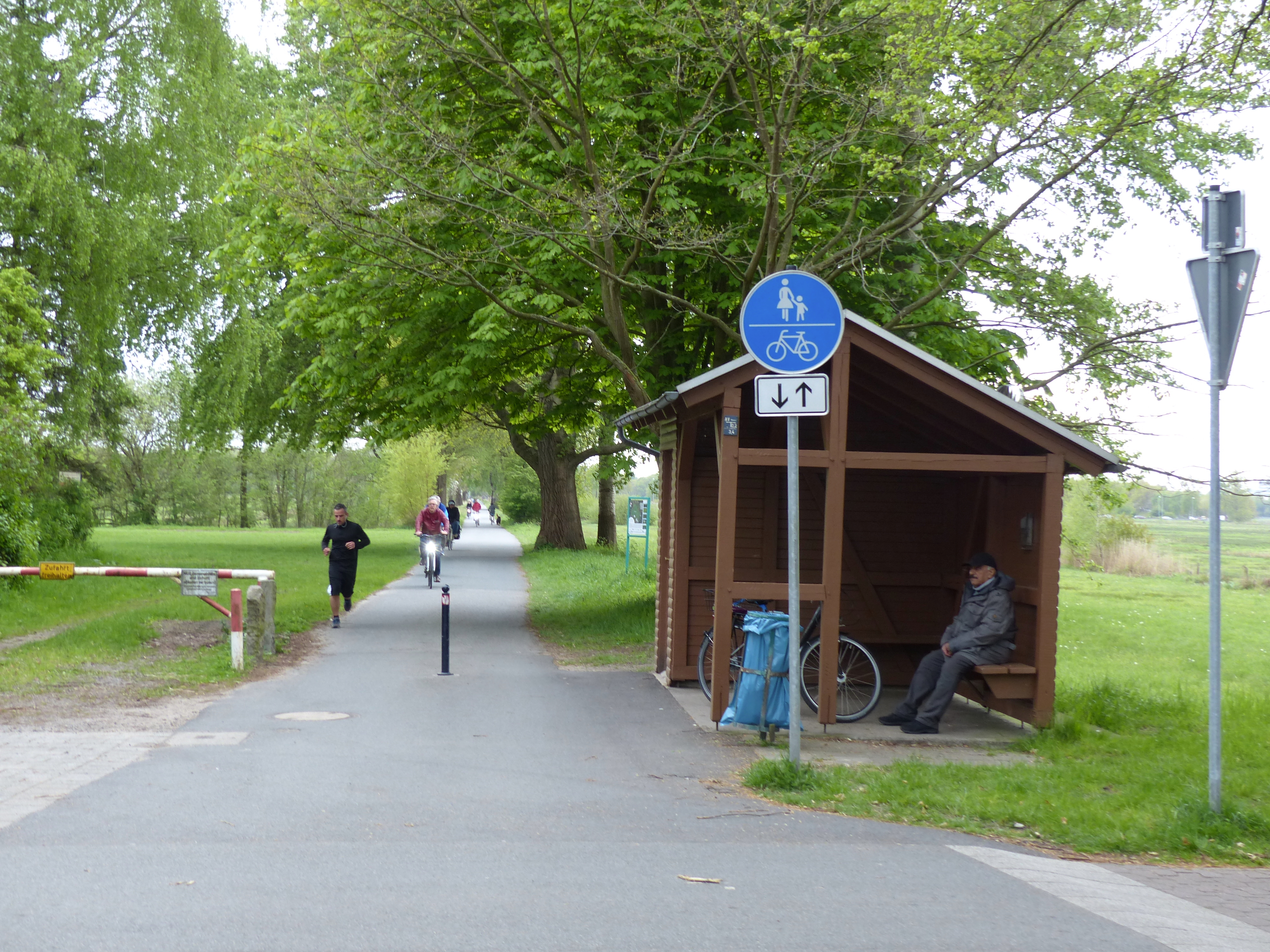 Crossroads of Jan-Reiners-Radweg (bikeway) and the street Am Lehester Deich in Bremen with right of way of the bikeway